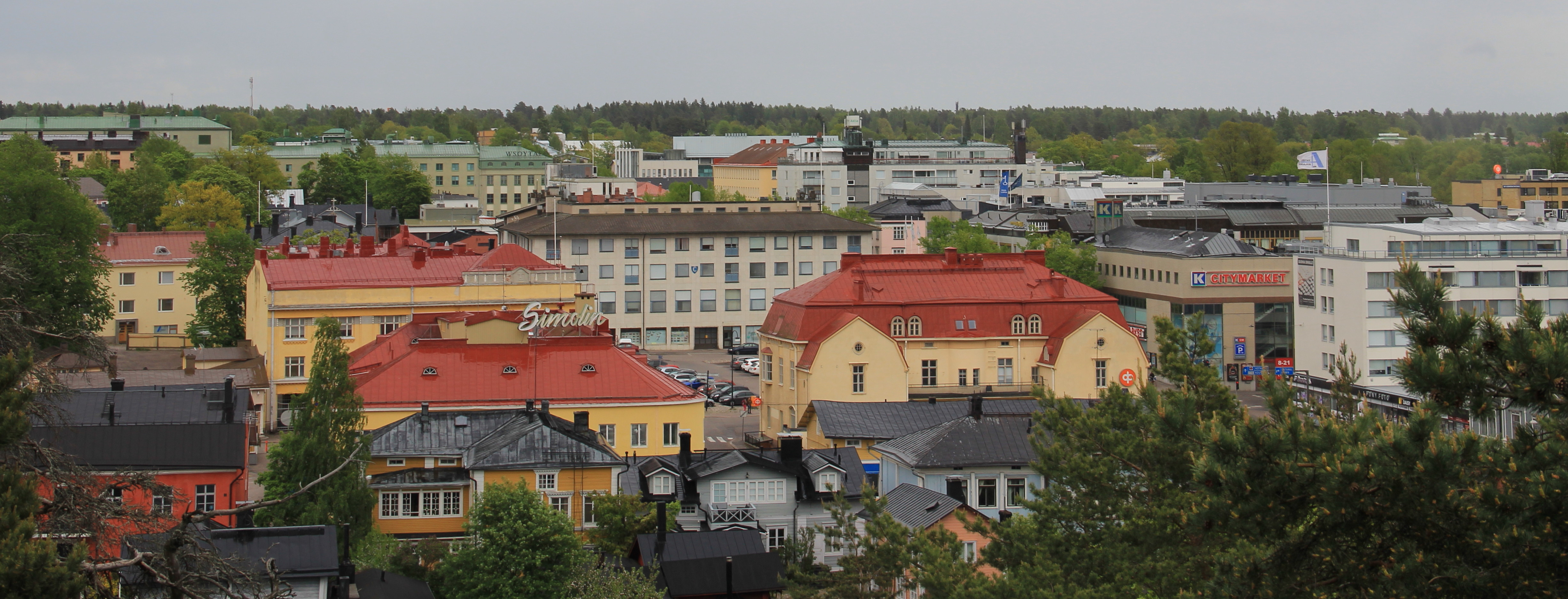 City of Porvoo, Finland, seen from Näsi glacial erratic. Center (far back): yellow building with red roof is 13 Mannerheiminkatu (residential building). Left from center grey building with green roof and WSOY TALO sign is 20 Mannerheiminkatu.